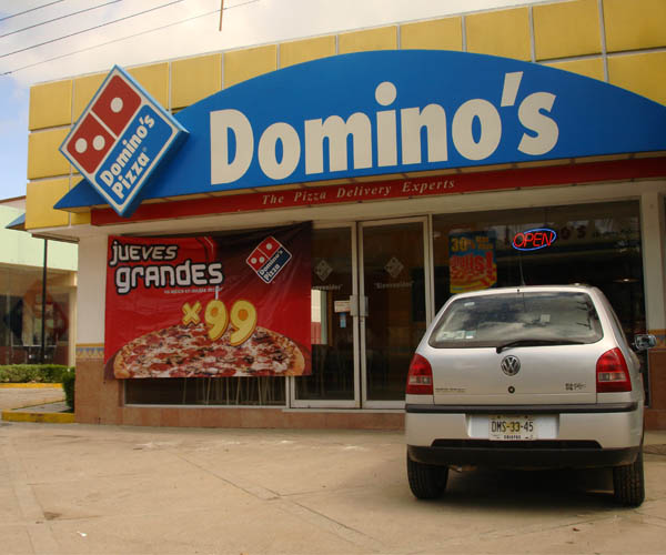 Domino's Pizza shop - Arboledas, Tuxtla Gutiérrez, Chis., Mexico